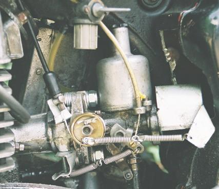 Ratbike engineering: an SU carb fitted to an MZ TS250/1 in place of the original BVF carb by the use of handy bits of metal and domestic plumbing fittings, for improved economy and low-speed tractability.